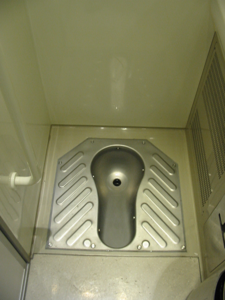 Squat toilet inside CRH1 trains running Guangshen line.